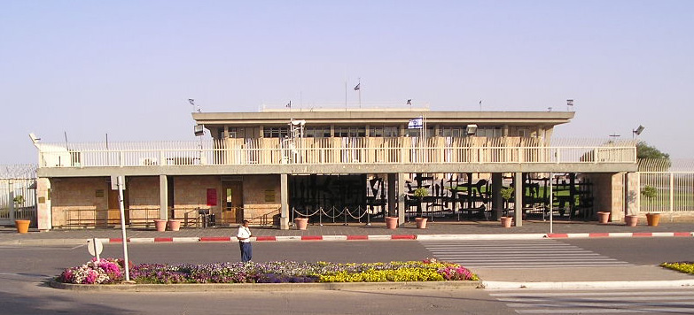 Knesset